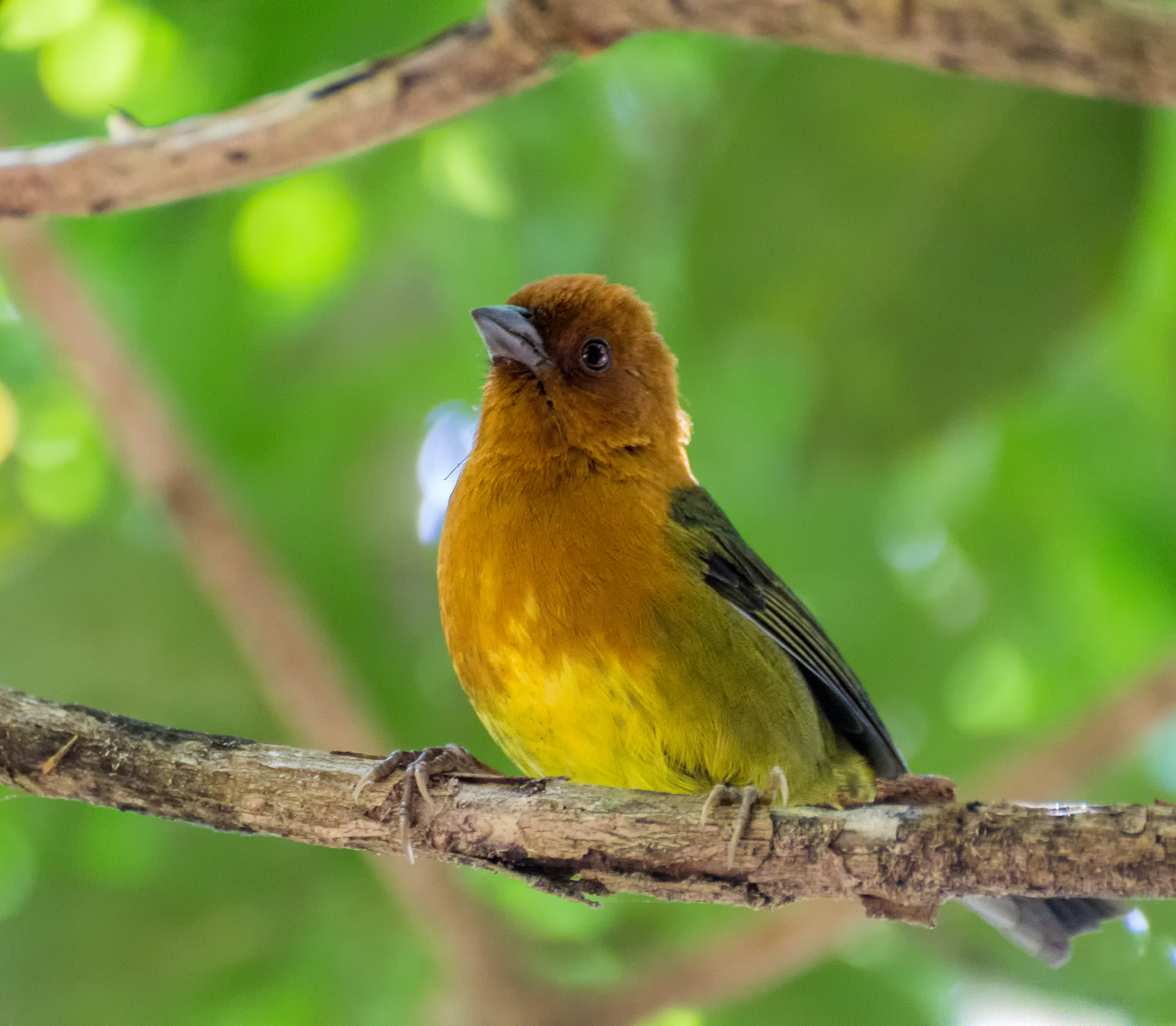 Ochre-breasted Brushfinch - Atlapetes Ajicero (Atlapetes semirufus denisei)